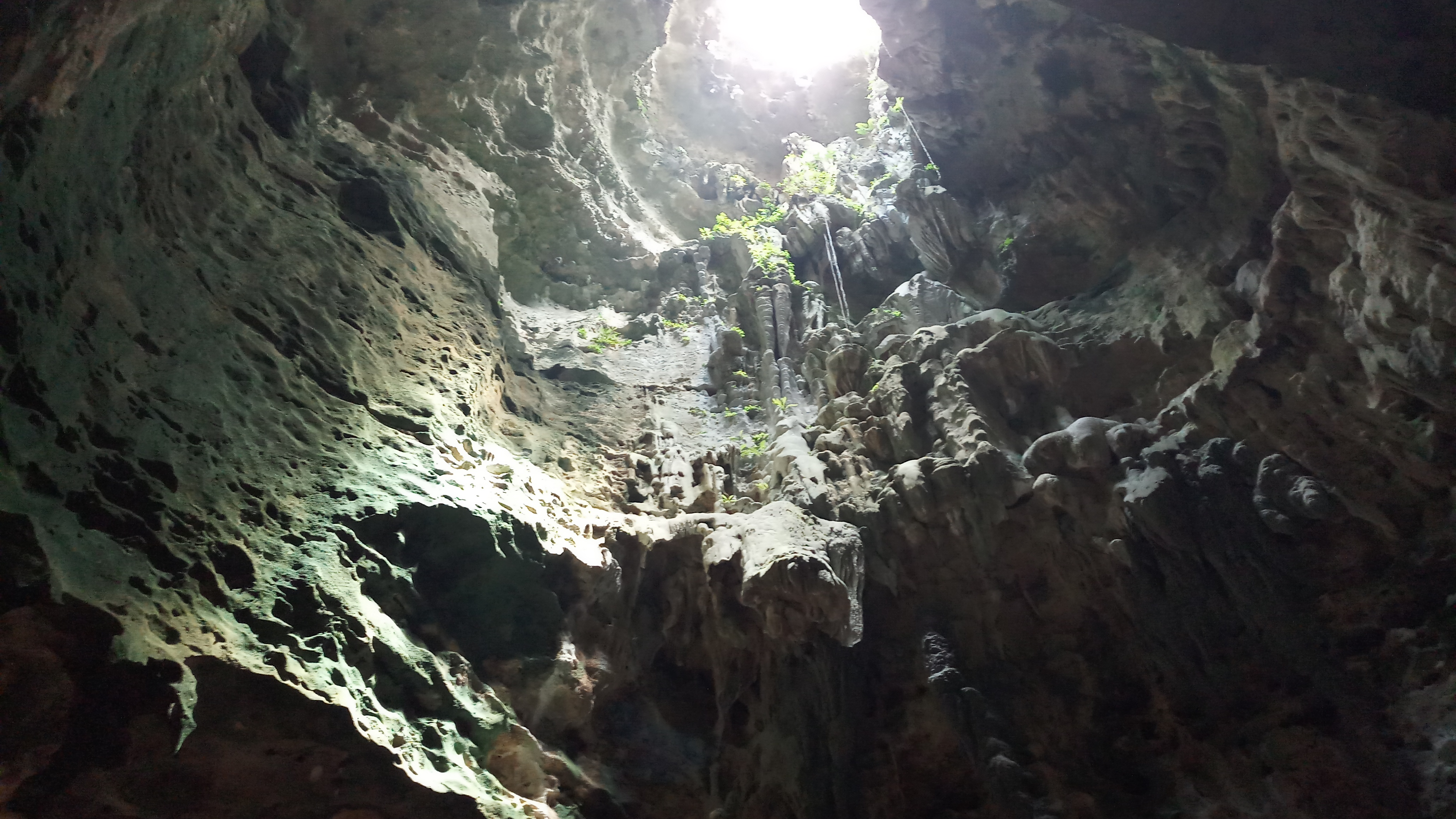 The natural opening of the first chamber of the Callao Cave providing natural lighting